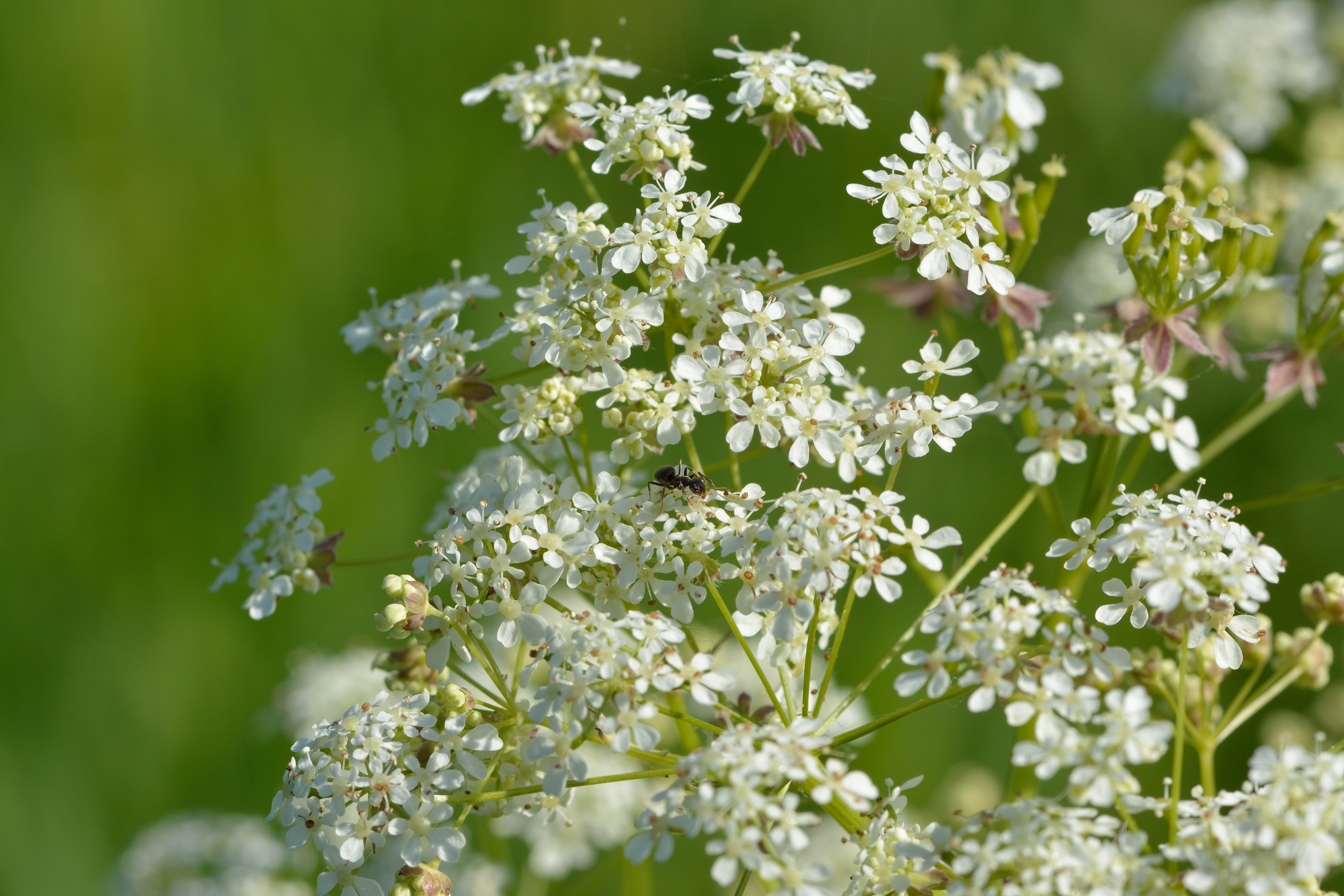 Anthriscus sylvestris - Niitvälja, Northwestern Estonia